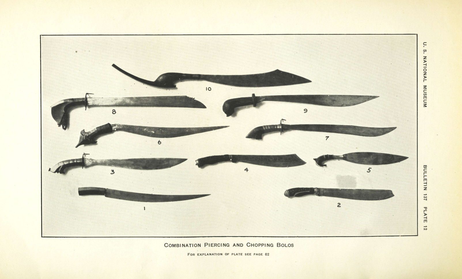 Plate 12 -- The bolo: Combination piercing and chopping weapons; agricultural knives and jungle tools. No. 1. Curved blade of steel with flattened surface on inner side and median ridge on beveled outer surface; octagonal hardwood handle. Tagalog, central Luzon. 2. Bolo with steel blade point broken off. Handle consists of elaborately carved carabao horn. Luzon. 3. Broad-backed steel blade provided with convex cutting edge; handle completely shod with figured brass. Bagobo, southern Mindanao. 4. Bolo having chased iron blade inlaid with soft metal; beautifully carved carabao-horn handle. Cebu, Visayan Islands. 5. Boy's barong; small elliptic steel blade; carved hardwood handle ferruled with silver bands and braided silver cord. Taken in 1913 at Mount Talipao, Mindanao. 6. Steel blade, "pirah" acutely pointed and convexly curved; provided with sharp downward curve near handle similar to the Malayan parang-latok; hardwood handle equipped with symbolic recurved horns and spike. Cebu, Visayan Islands. 7. Concavo-convex grooved steel blade; brass-shod handle and guard spike. Bagobo, southern Mindanao. 8. Kampilan-bolo type; chain ornament on hardwood pommel. Bagobo, southeastern Mindanao. 9. Grotesque totemic or wyang carving on wood handle; circular guard of wood; old type of Malay weapon. Panay, Visayan Islands. 10. Pirah. Cutting edge of blade has sweeping convex curve; heavy, concave blade back; truncated slope at point; handle fashioned of carabao horn and provided with long extension arm support. Moro, Basilan Island. Other images on Filipino weapons by the same uploader are here: (a) Luzon weapons; (b) Visayan weapons; (c) Moro weapons; and (d) Lumad (non-Moro Mindanao) weapons